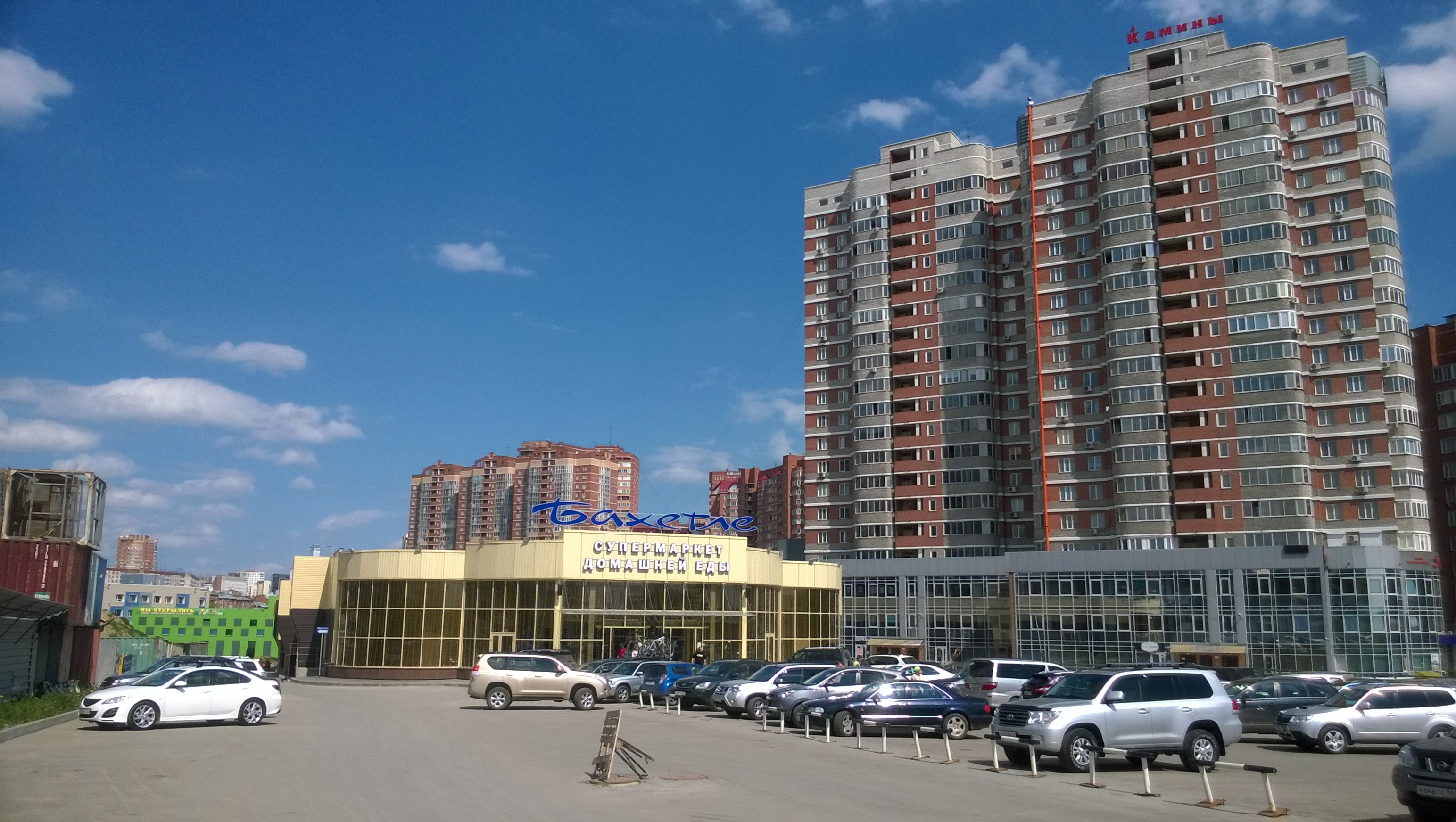 Supermarket in Novosibirsk.